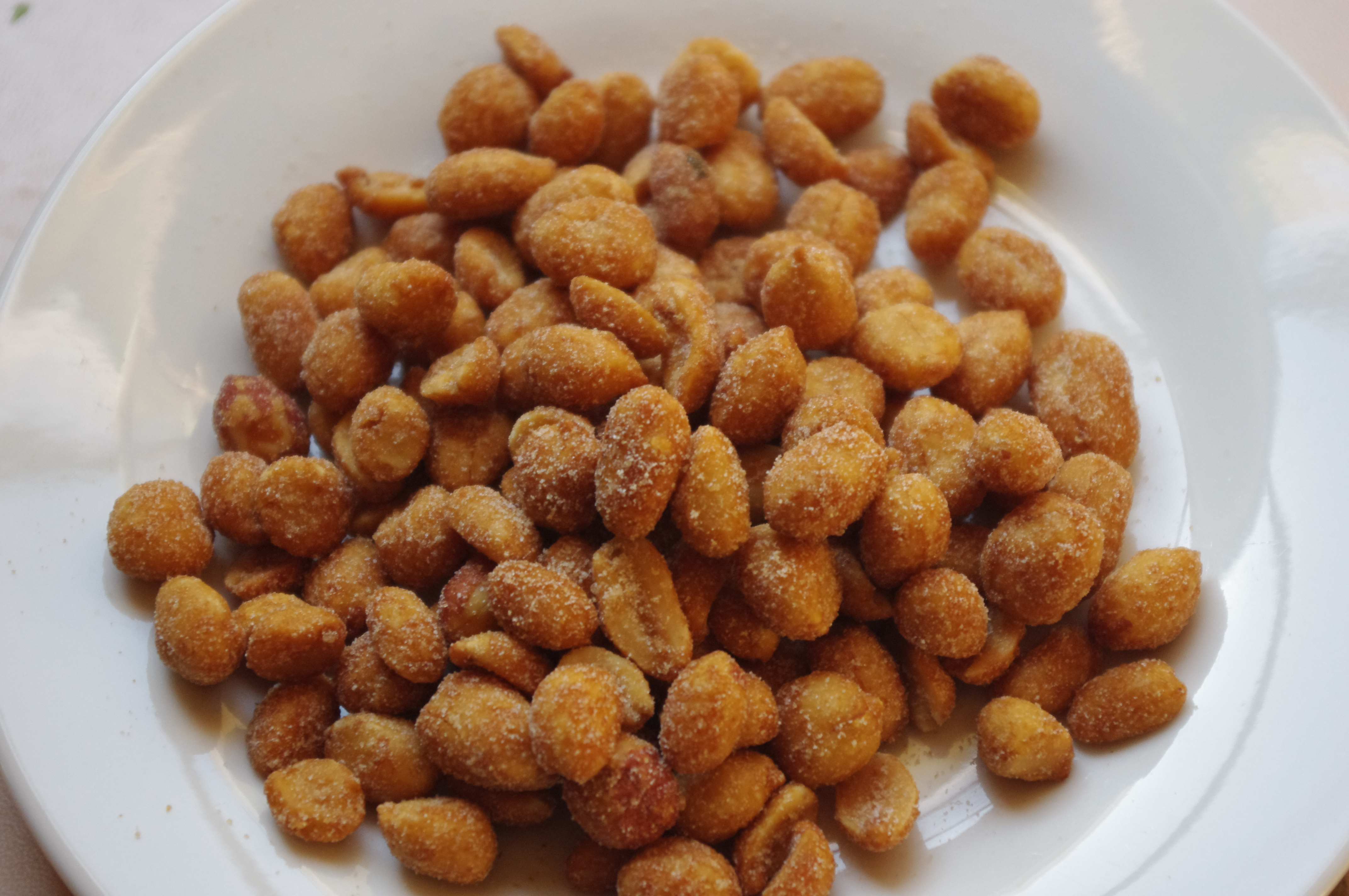 Peanuts (Arachis hypogaea) roasted and coated with a flavoring mixture of sugar, honey and salt